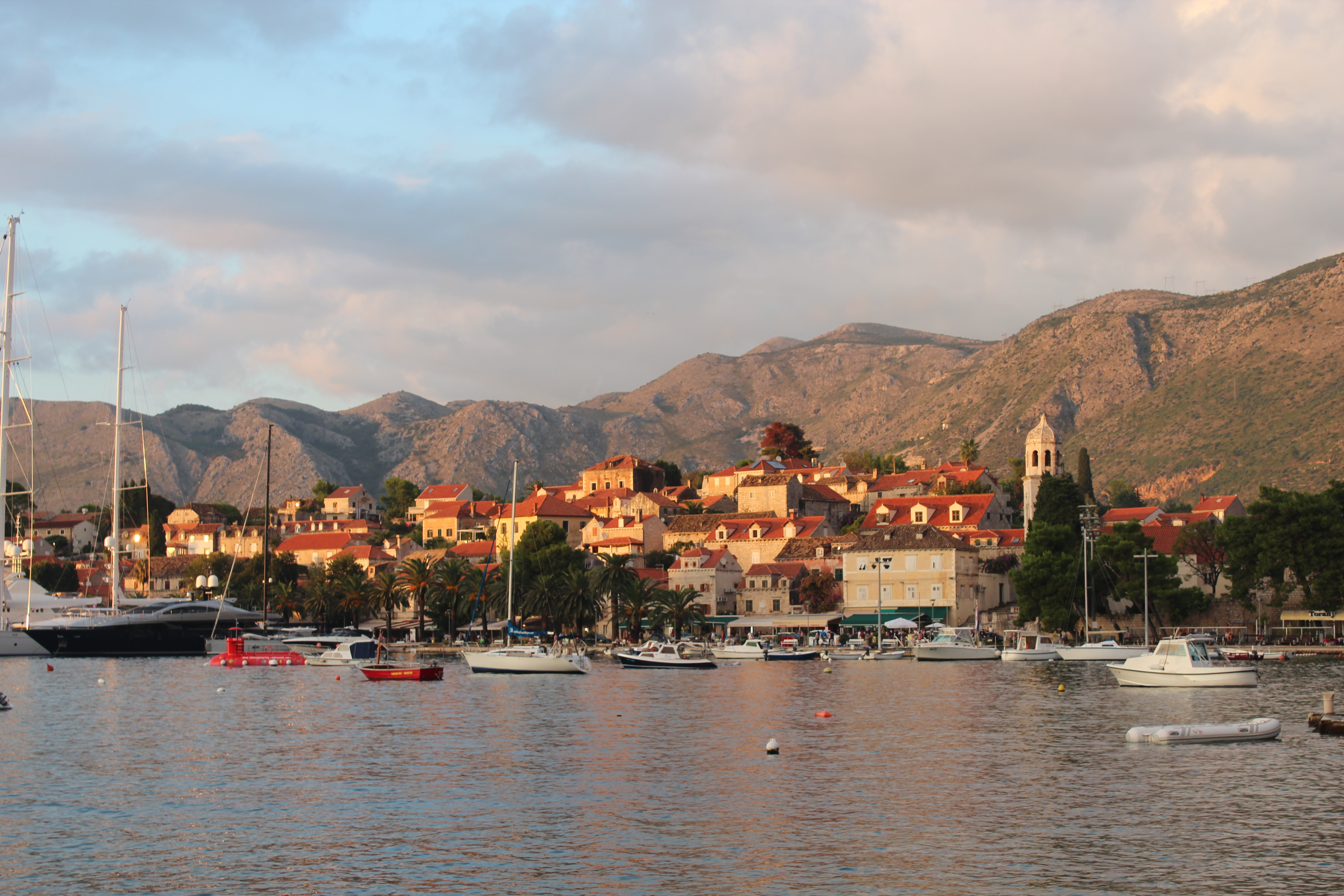 Cavtat, Croatia.